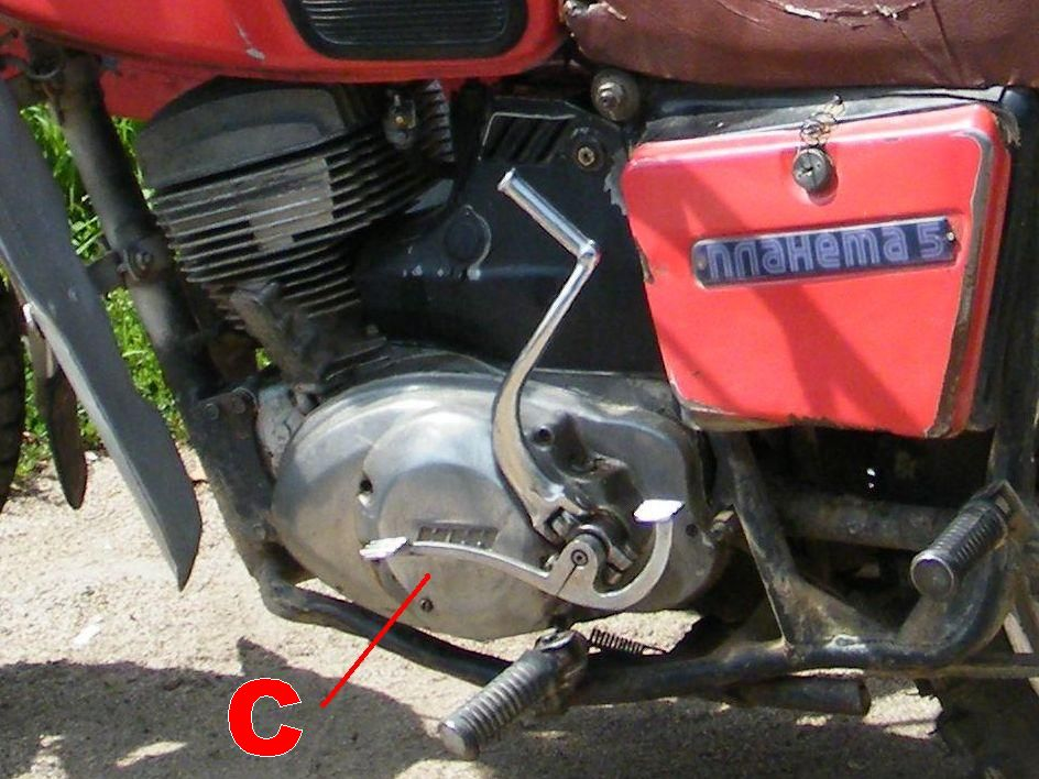 Двигатель Иж Планета-5